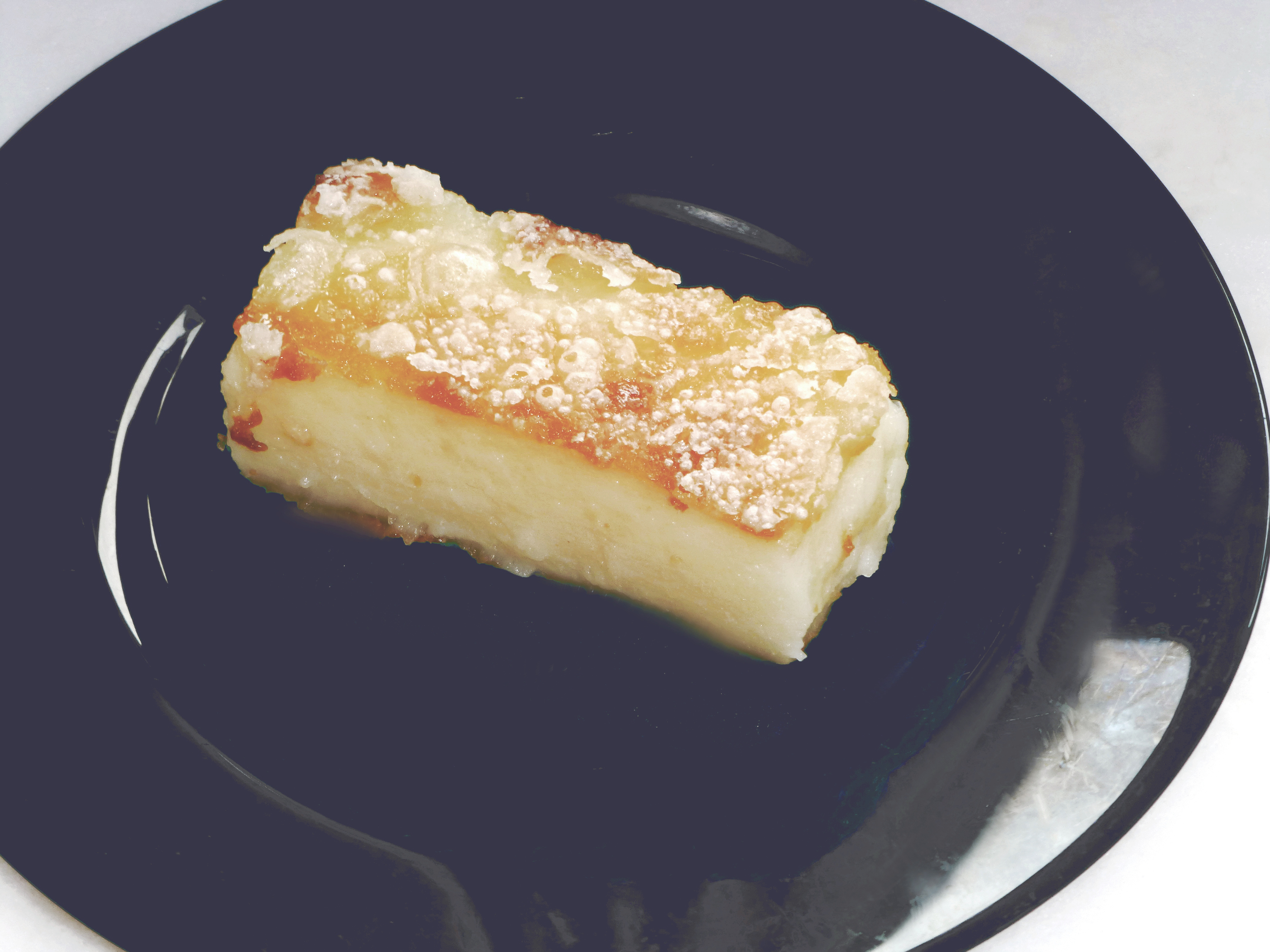 Hasude with milk